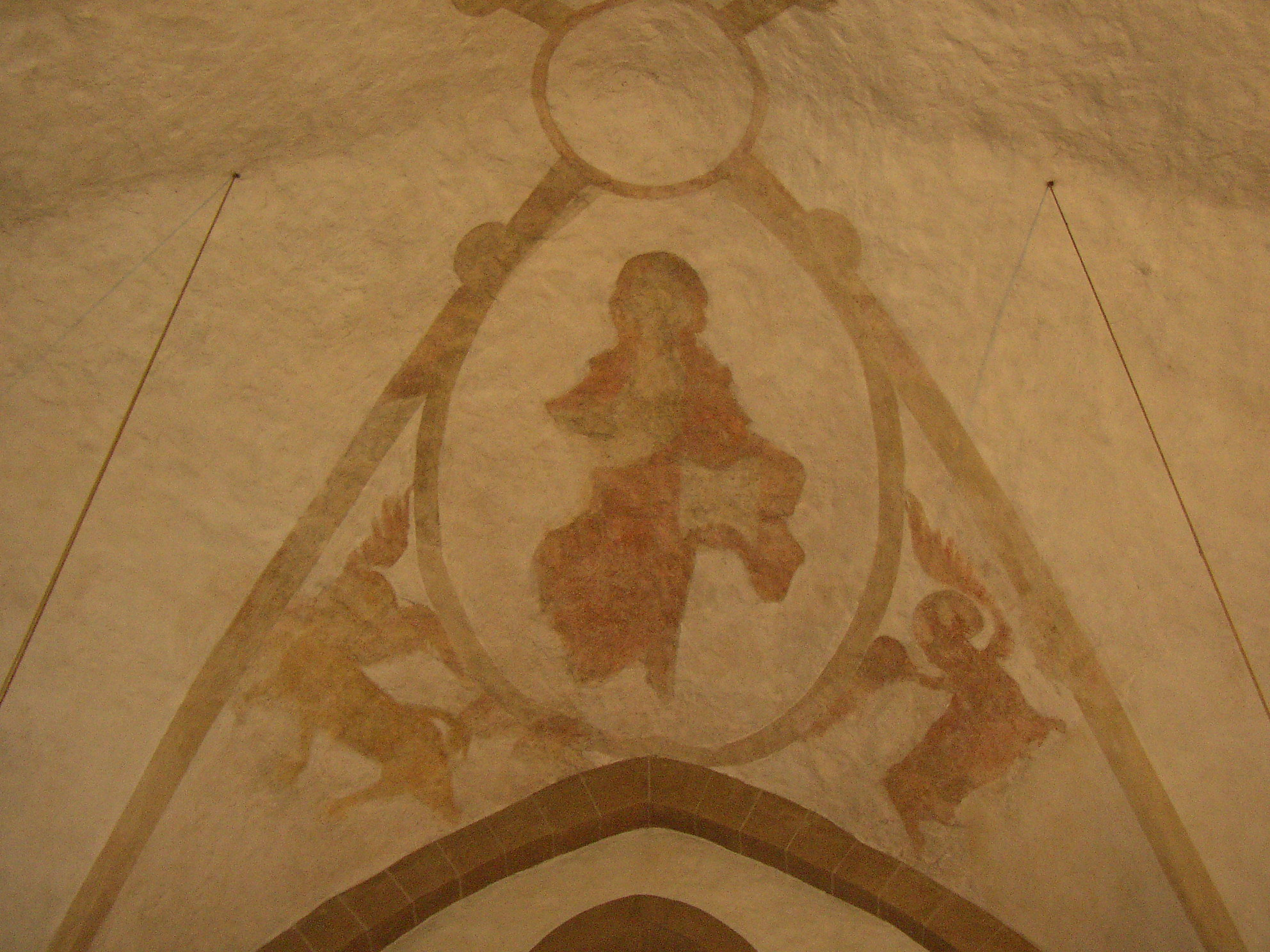 vault painting Christ in the mandorla in St. Johannes church in Halle (Westfalen), county of Gütersloh, Germany